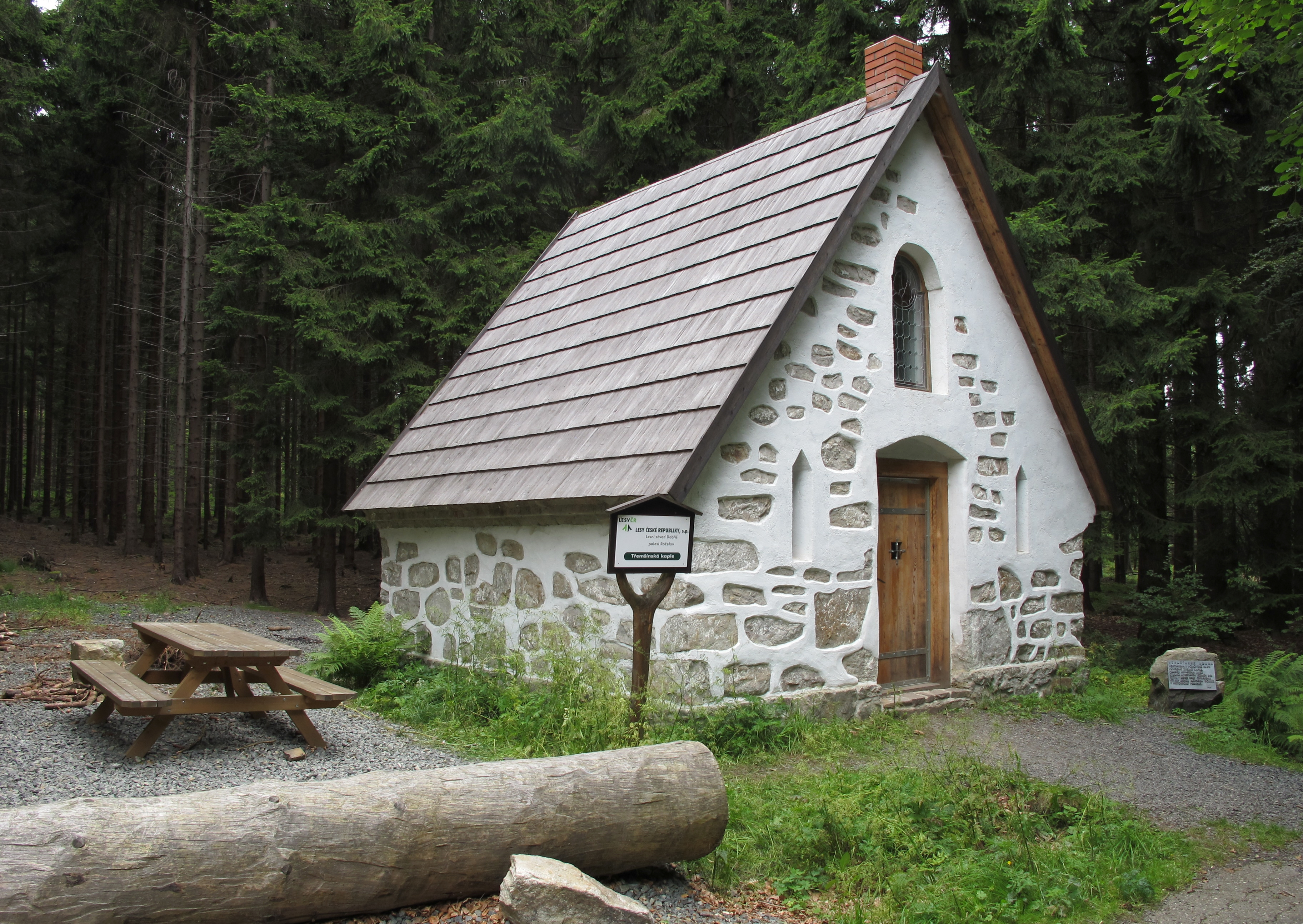 Chapel in Nature park Třemšín, Příbram District in Czech Republic